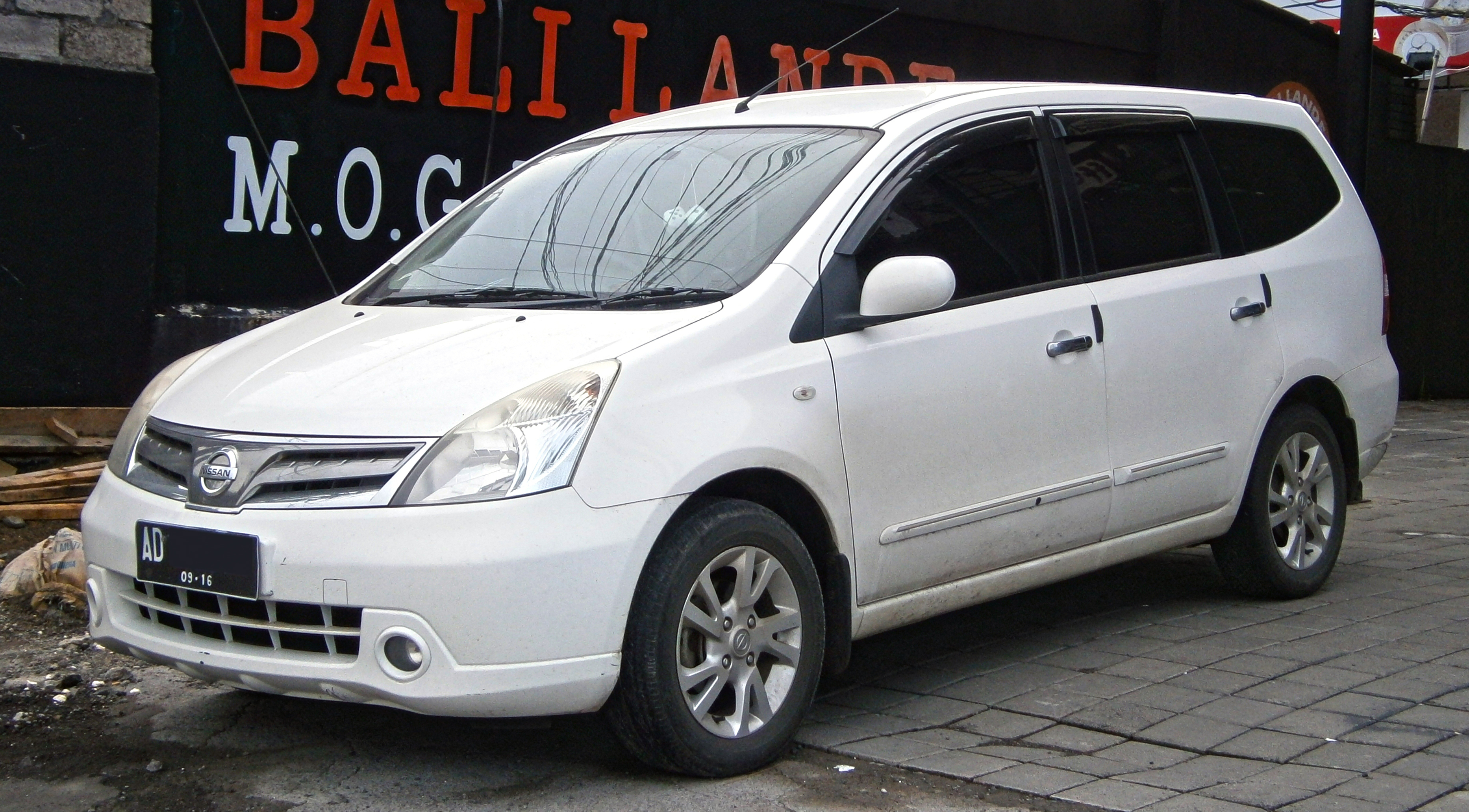 2011 Nissan Grand Livina 1.5L XV in Kuta, Bali, Indonesia.